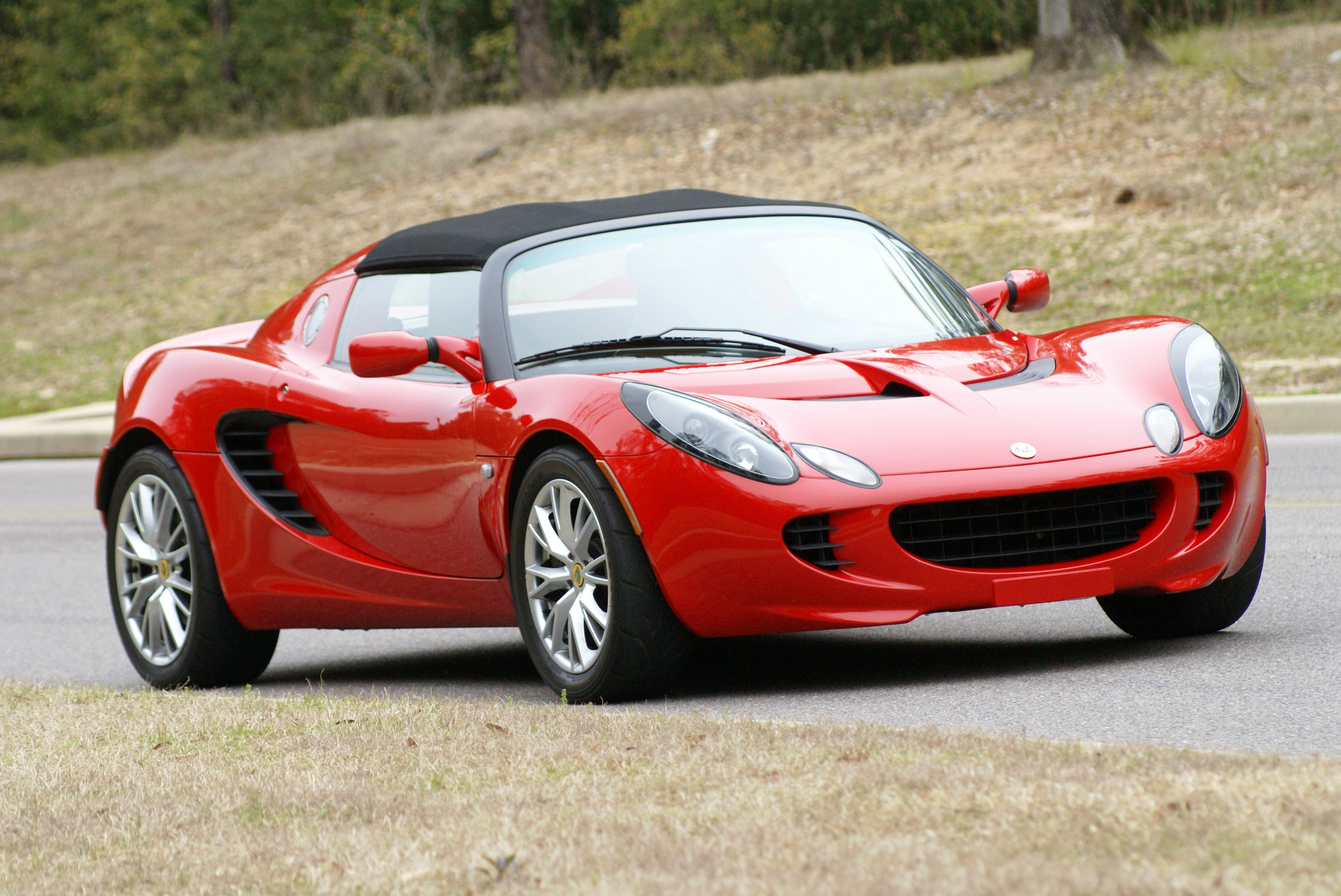 2005 Lotus Elise